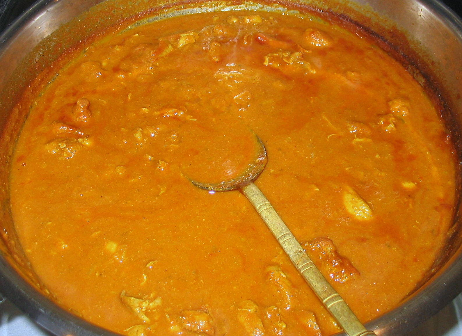 Chicken curry, an Indian dish.